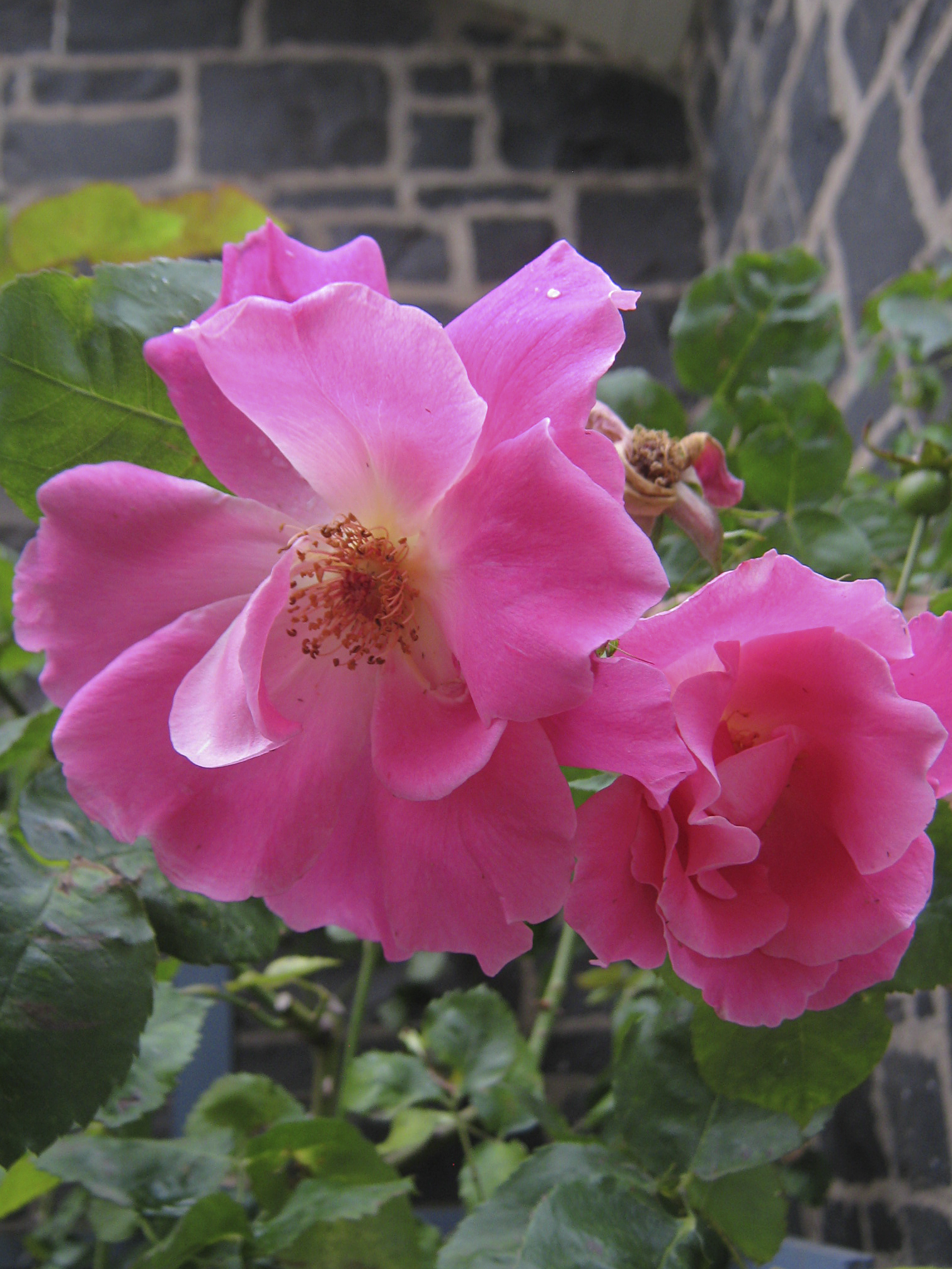 Rose 'Nora Cunningham', Hybrid Gigangtea by Alister Clark 1920; photographed in the Alister Clark Memorial Rose Garden, Bulla, Victoria